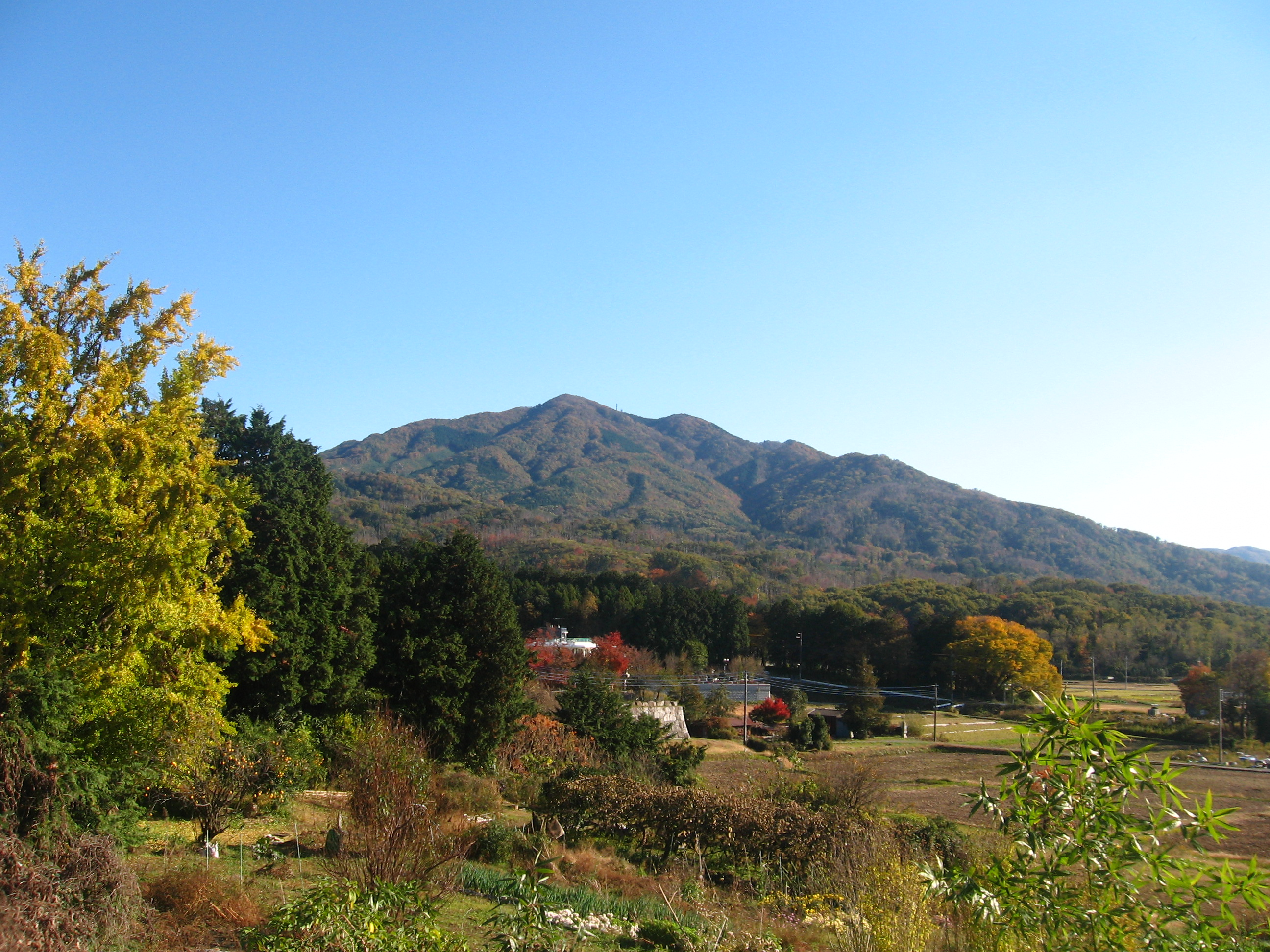 Mount Kaba (Kaba-san) seen from the northwest in Ibaraki Prefecture, Japan.